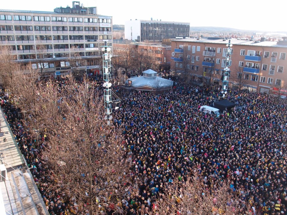 10 000 citizens of Skellefteå celebrating their ice hockey teams first national gold in 35 years.